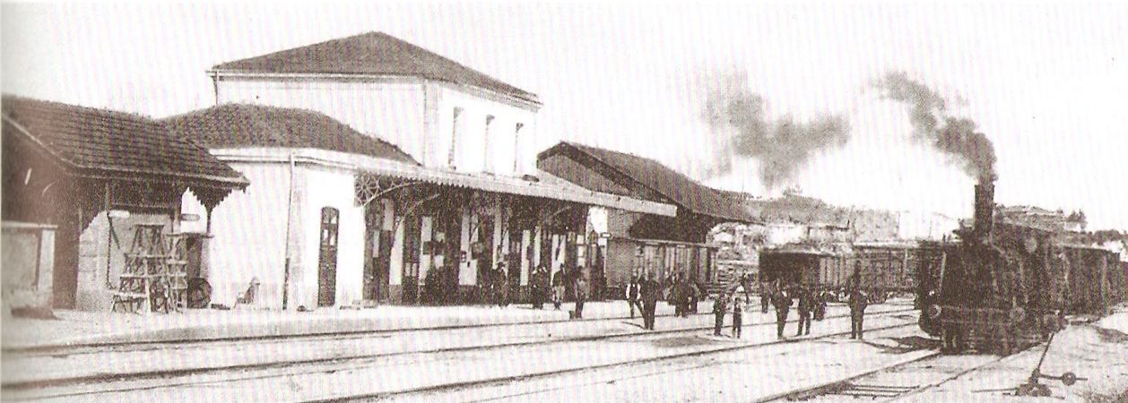 Guarda Railway Station, in Portugal, in 1909.